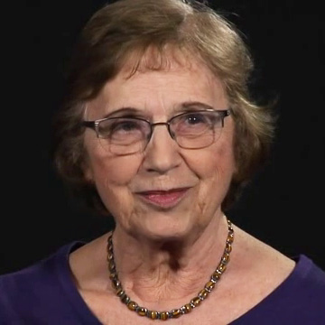 Honorary degree recipient Anne Treisman speaking at Congregation ceremony 2004